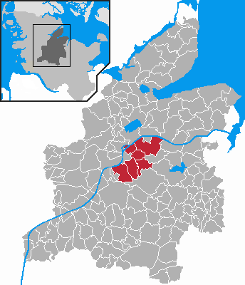 This map shows the area of the Amt (county) Osterrönfeld in the Kreis (district) Rendsburg-Eckernförde, Schleswig-Holstein, Germany.